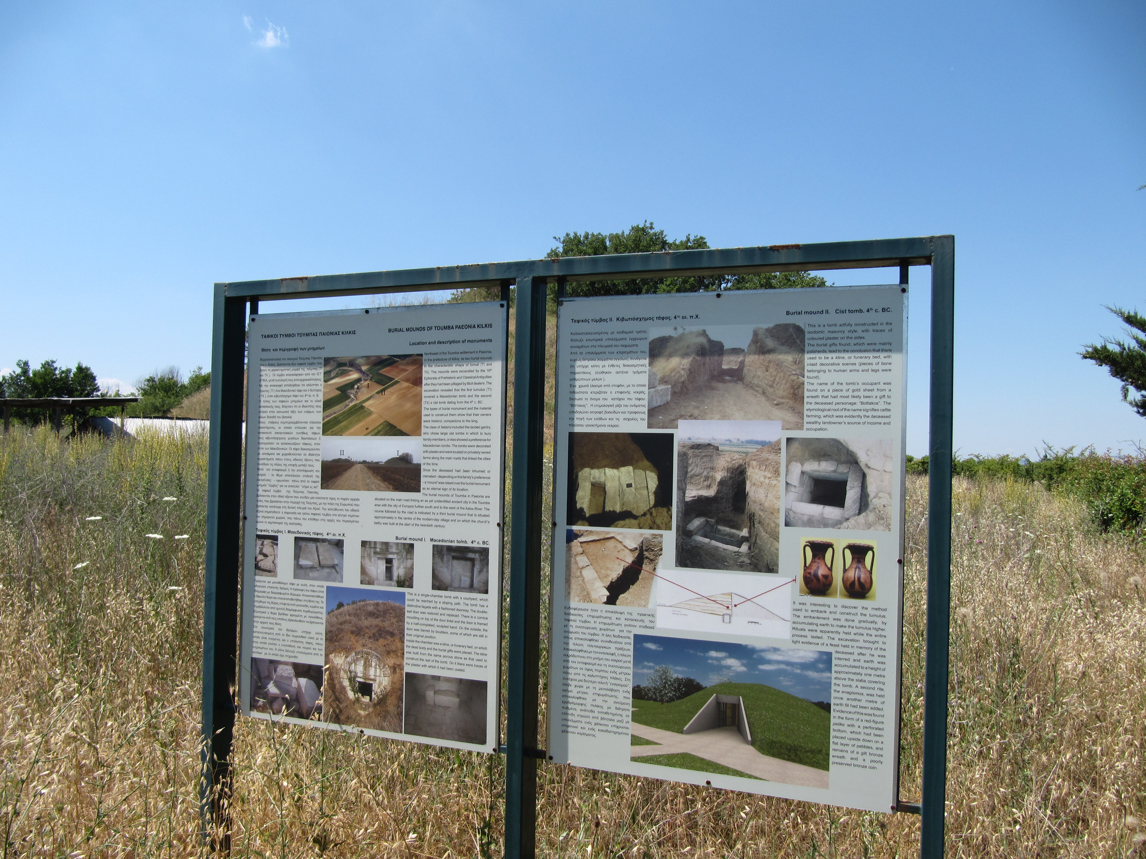 Burial mounds